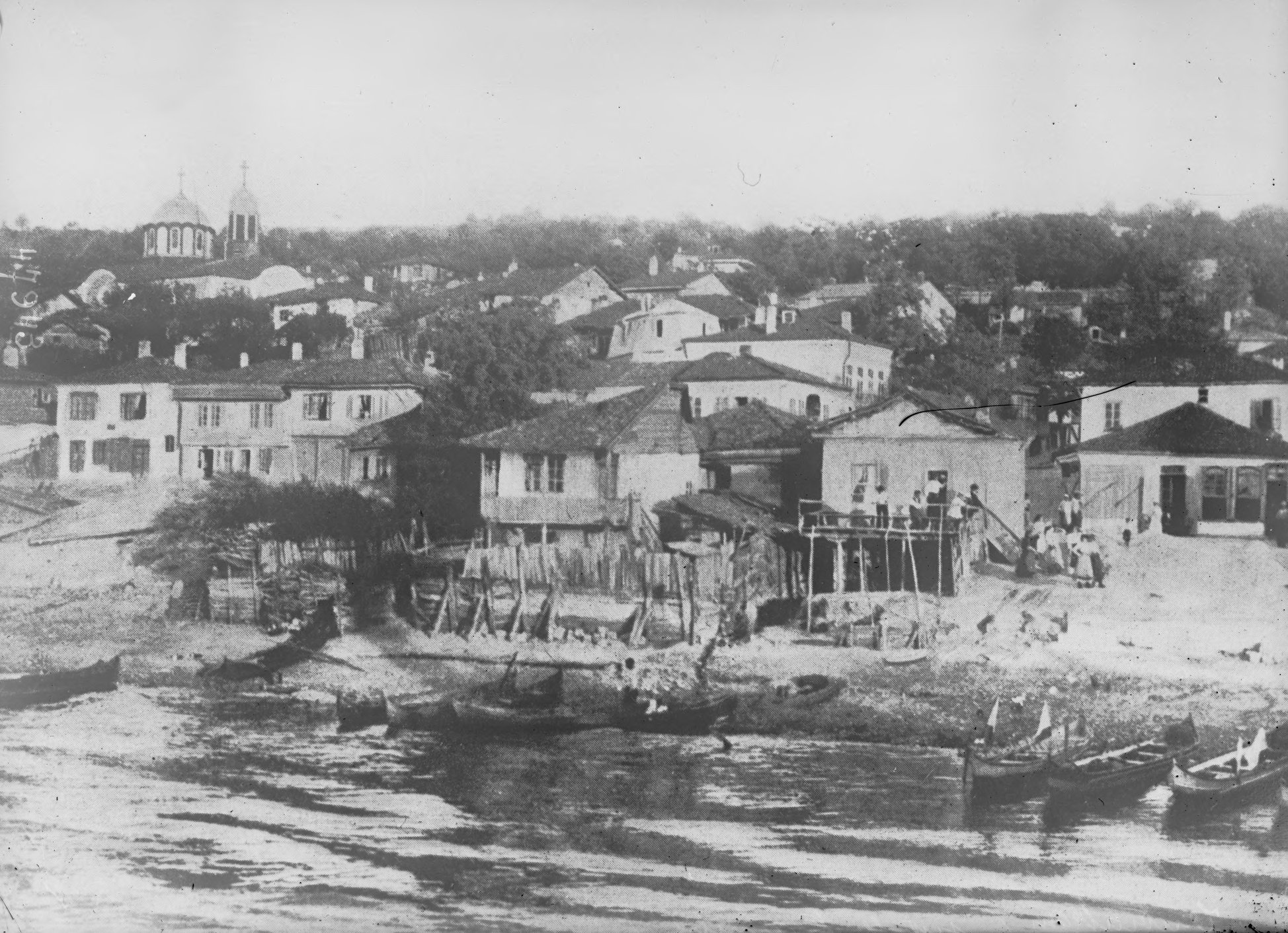 Photograph of Turtucaia (presently Tutrakan), a town on the Danube.